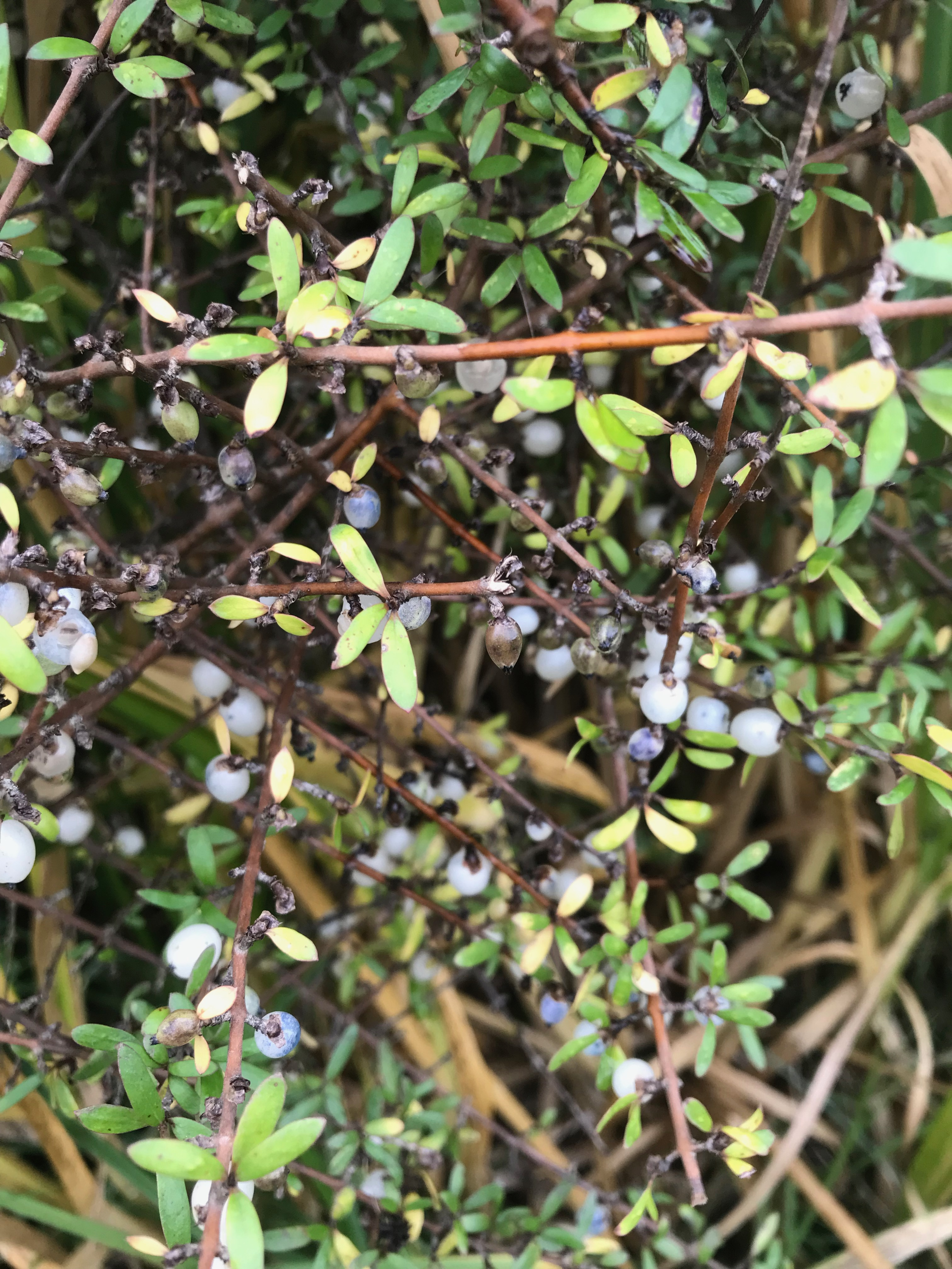 Coprosma propinqua or miki at Sinclair Wetlands, Otago, New Zealand